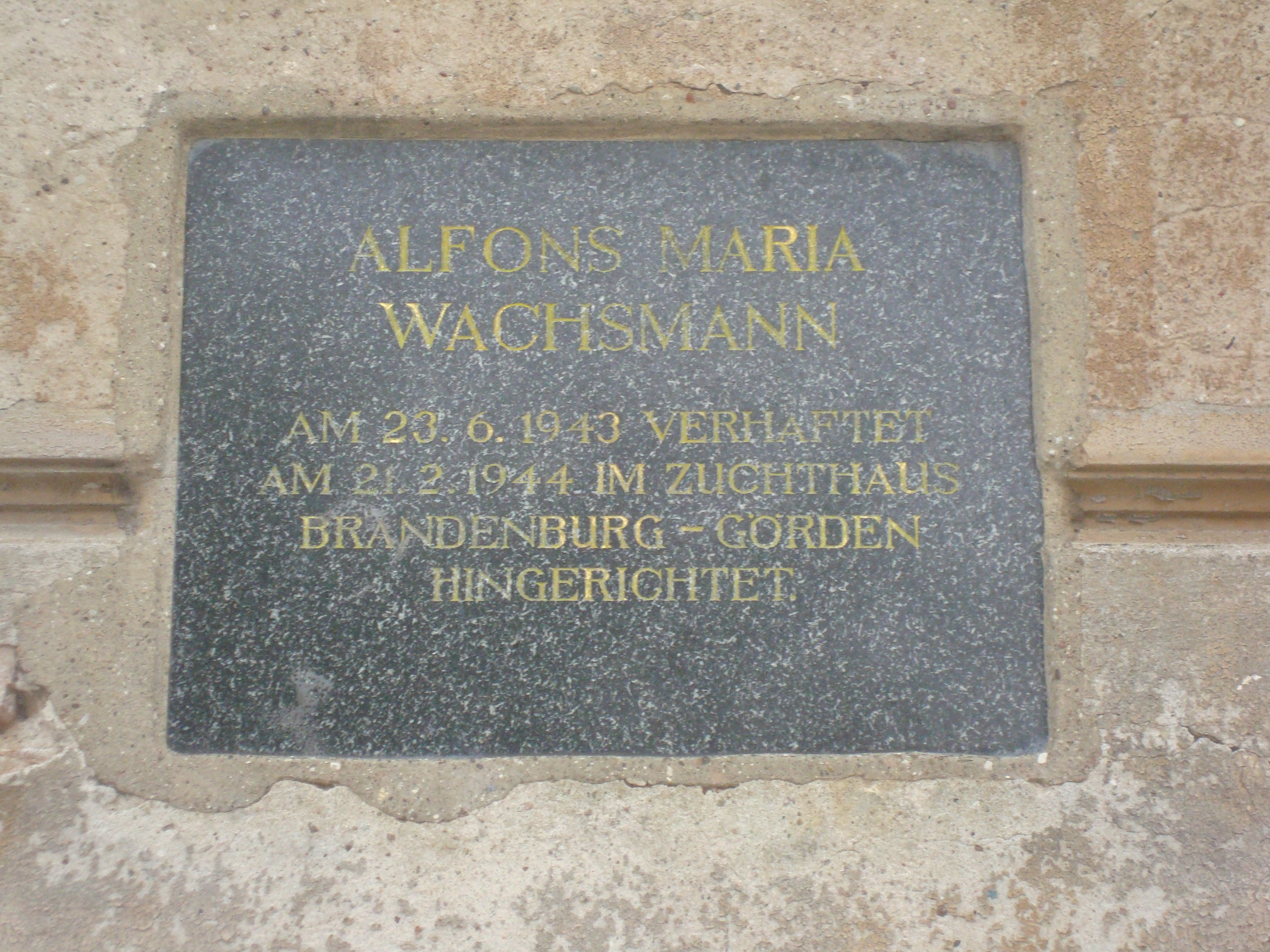 Commemorative plaque for Alfons Maria Wachsmann at Bahnhofstraße 46/47 in Greifswald, Germany.